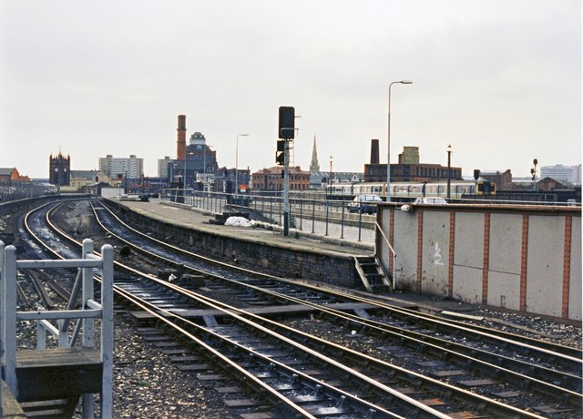 Manchester Exchange railway station Original description: Remains of Manchester Exchange station 1989 Seen from the continuous platform linking Victoria and Exchange stations, this was the main island platform No.4 at Manchester Exchange. Still in use in 1989 for overnight mail trains and officially designated Manchester Victoria platforms 18 and 19.